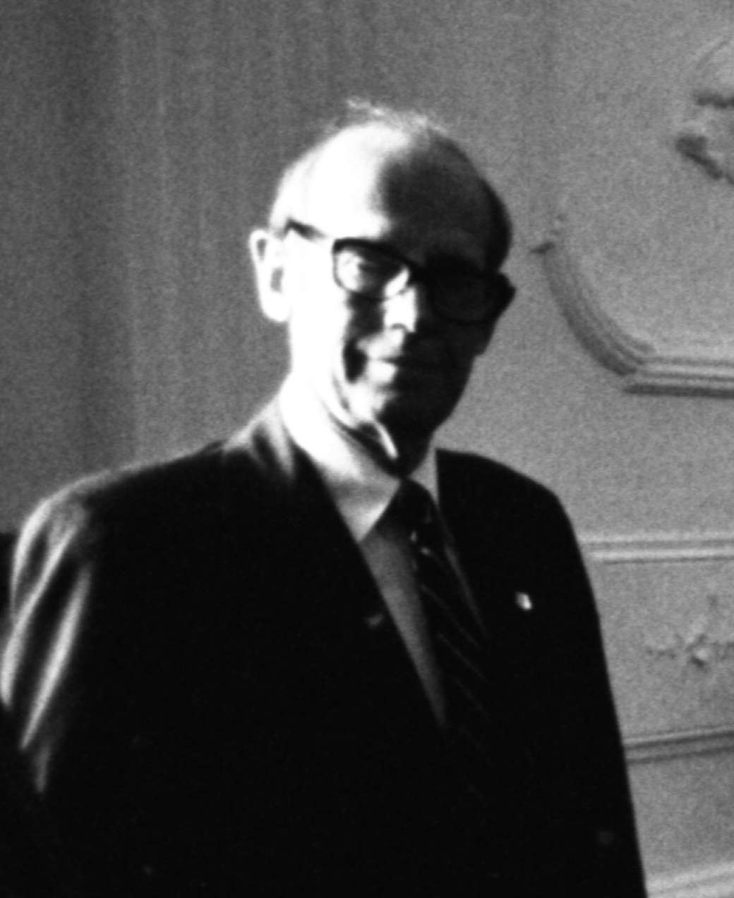 Newsom on 6 December 1975, during Gerald Ford's visit to Indonesia.